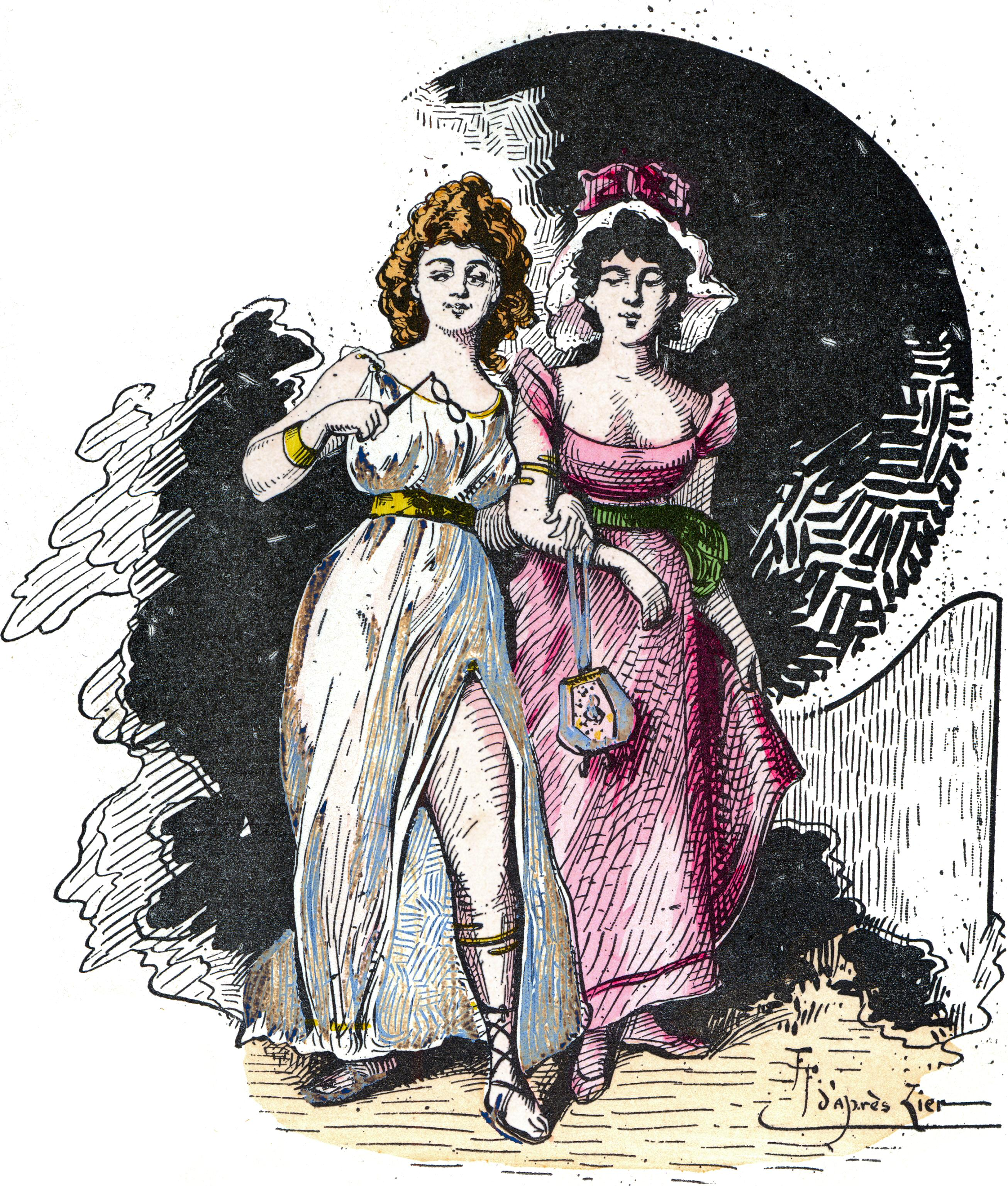 Late 19th century depiction of the alleged fashion excesses of fashionable Parisiennes of the Directoire period (not necessarily 100% historically accurate to 1799).